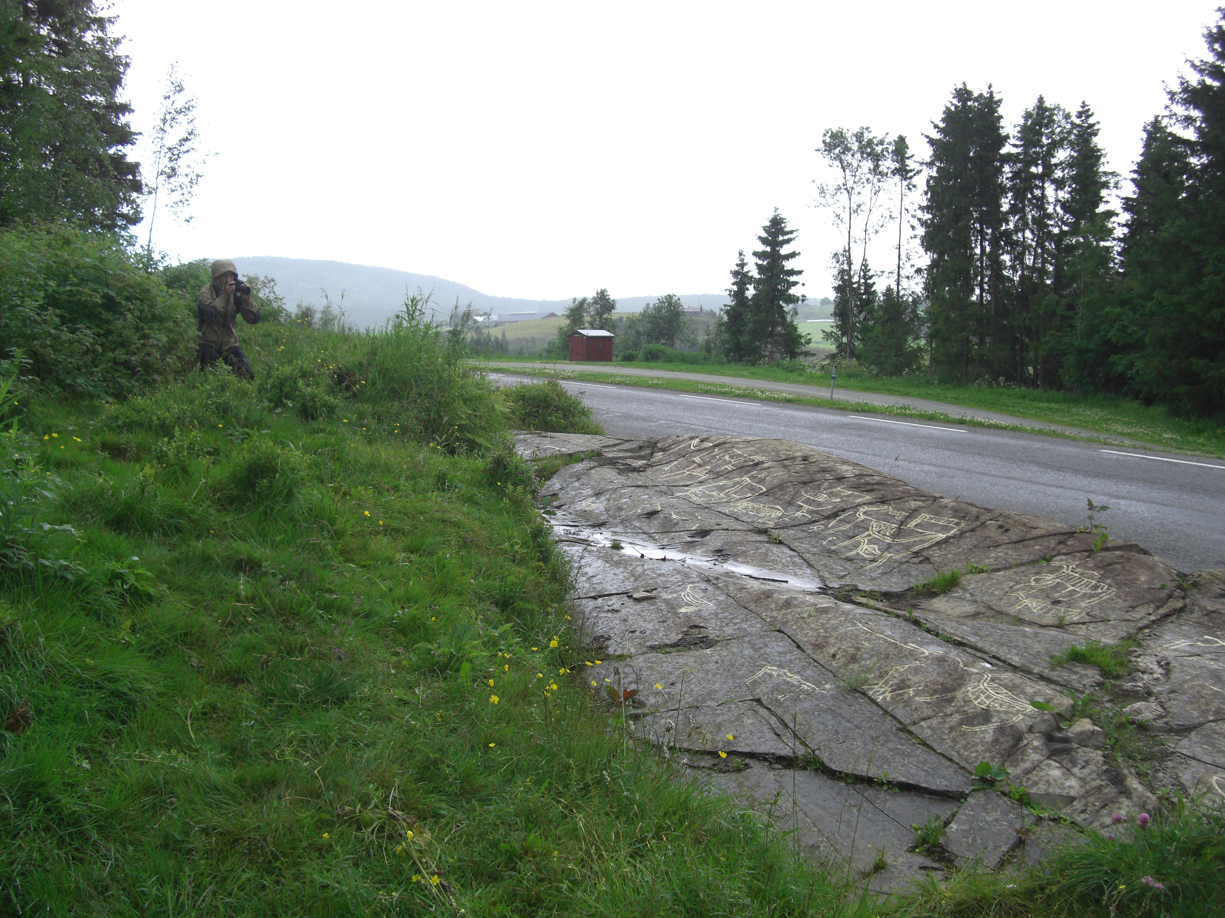 Rock carvings at Holtås, Skogn